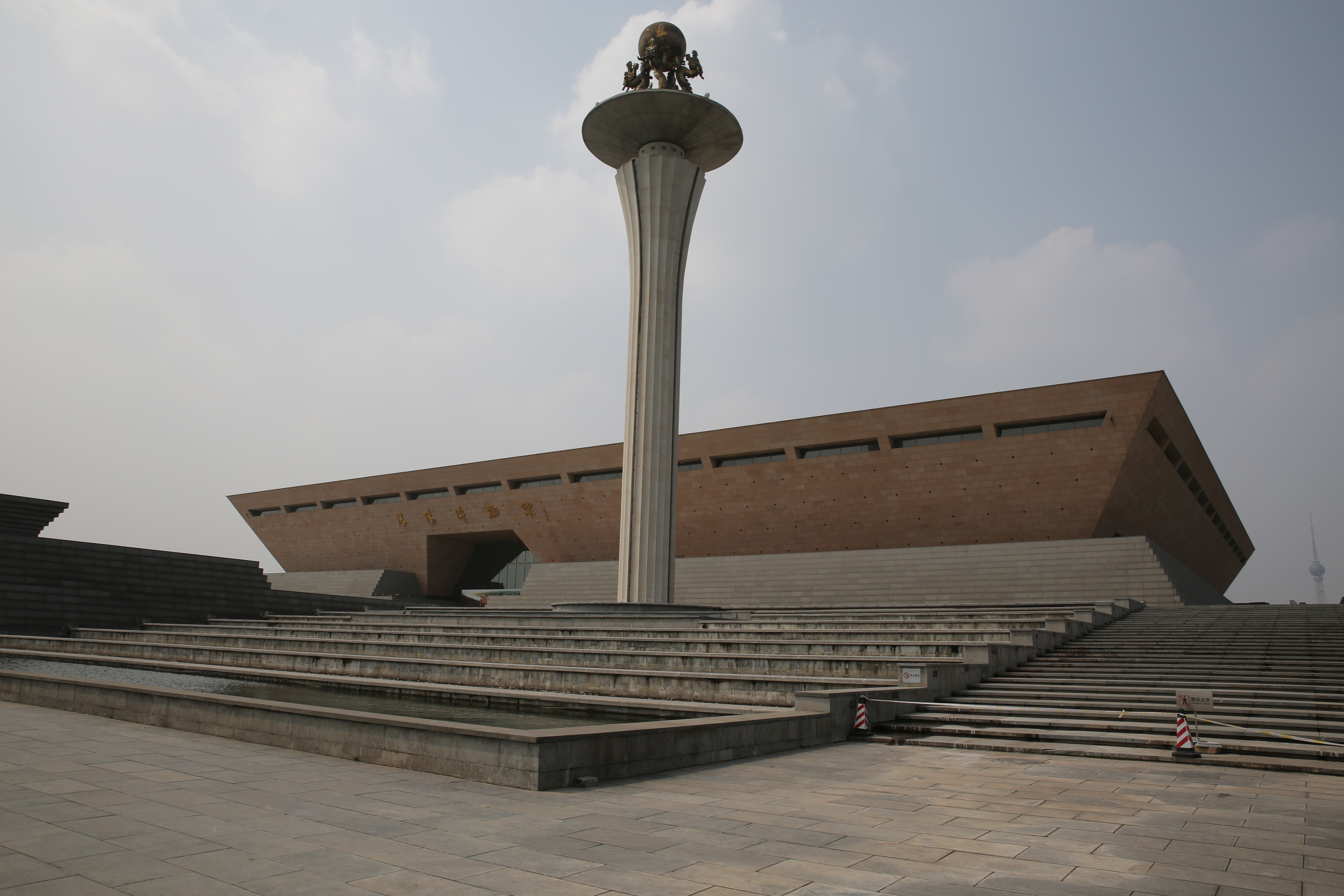 Luòyáng Museum